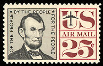 US stamp honoring Abraham Lincoln